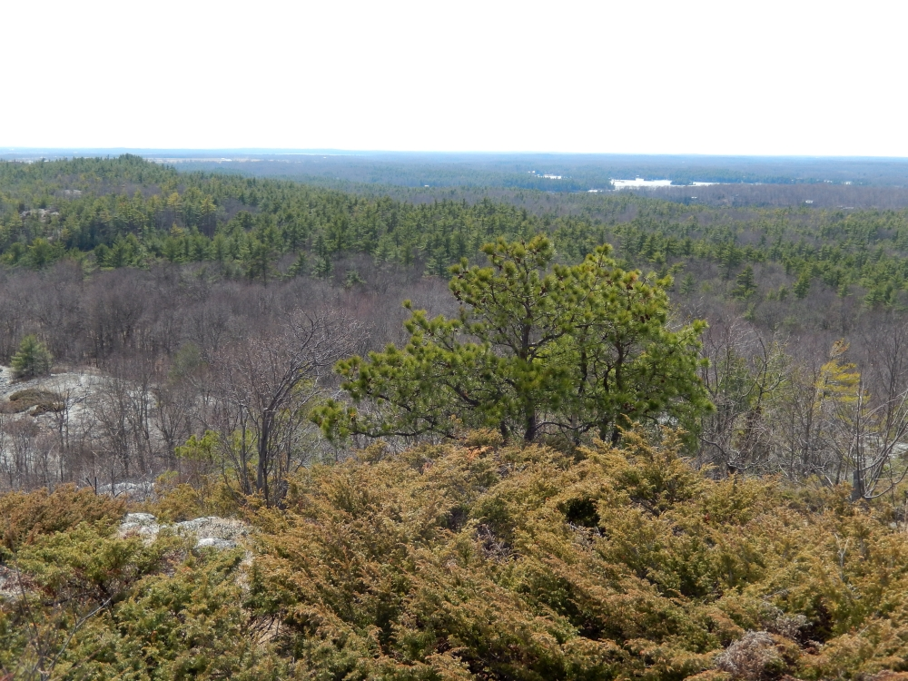 Blue Mountain: view southwest to Charleston Lake and Long Mountain (L), Charleston Lake Provincial Park, Ontario